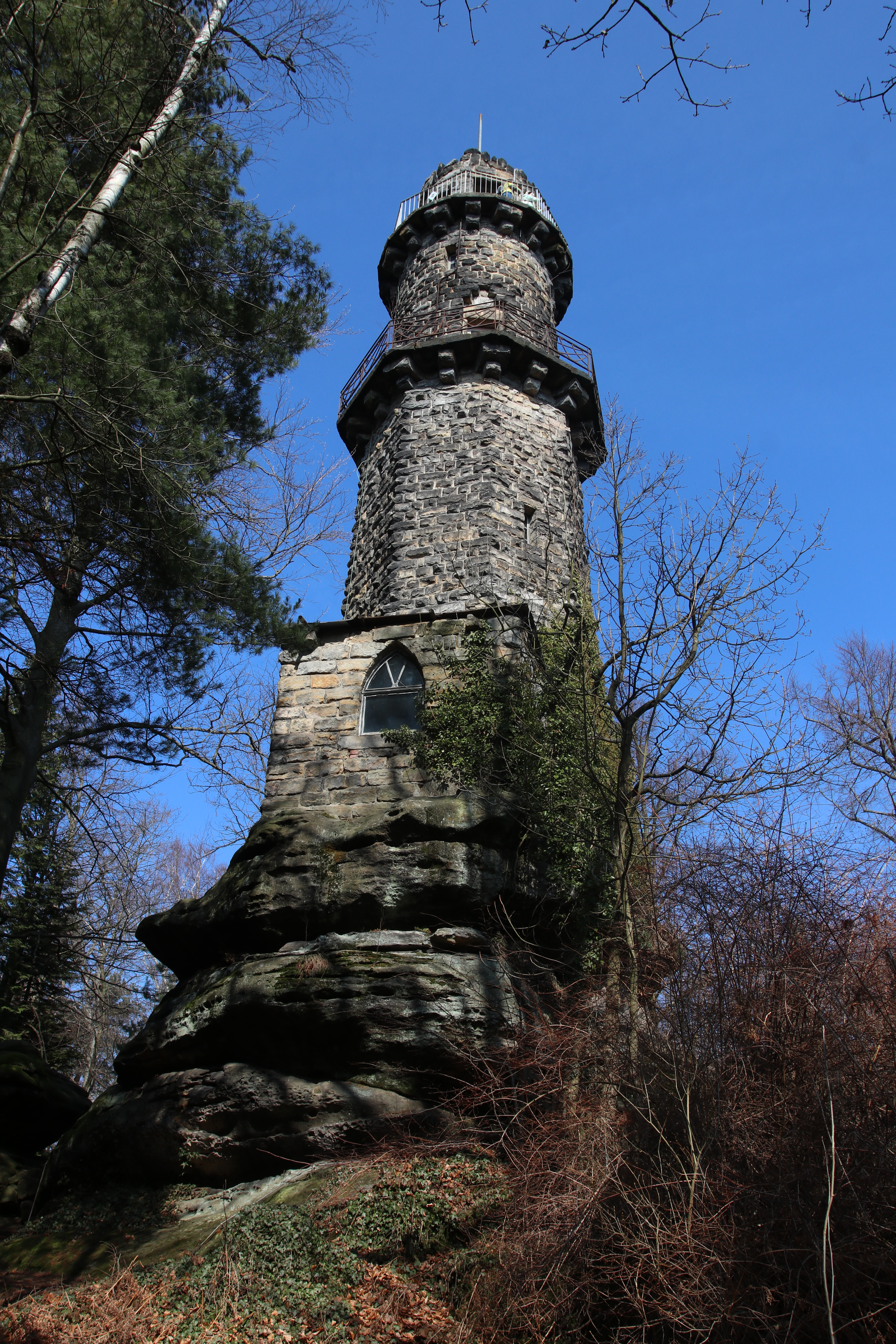 The Pfaffenstein, formerly called the Jungfernstein, is a table hill, 434.6 m (1,426 ft) above sea level, in the Elbe Sandstone Mountains in Saxony, Germany. It is also a nature reserve.